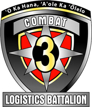 Squadron insignia for Combat Logistics Battalion 3